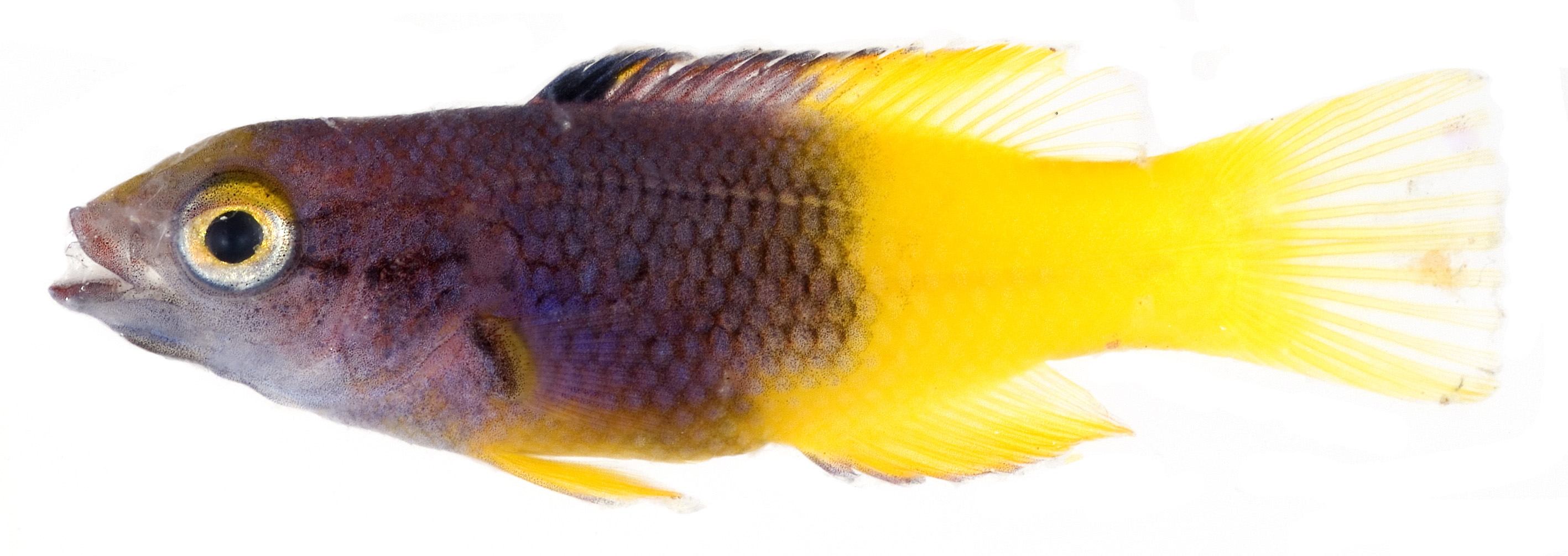 Bodianus rufus, Juvenile (Spanish hogfish)